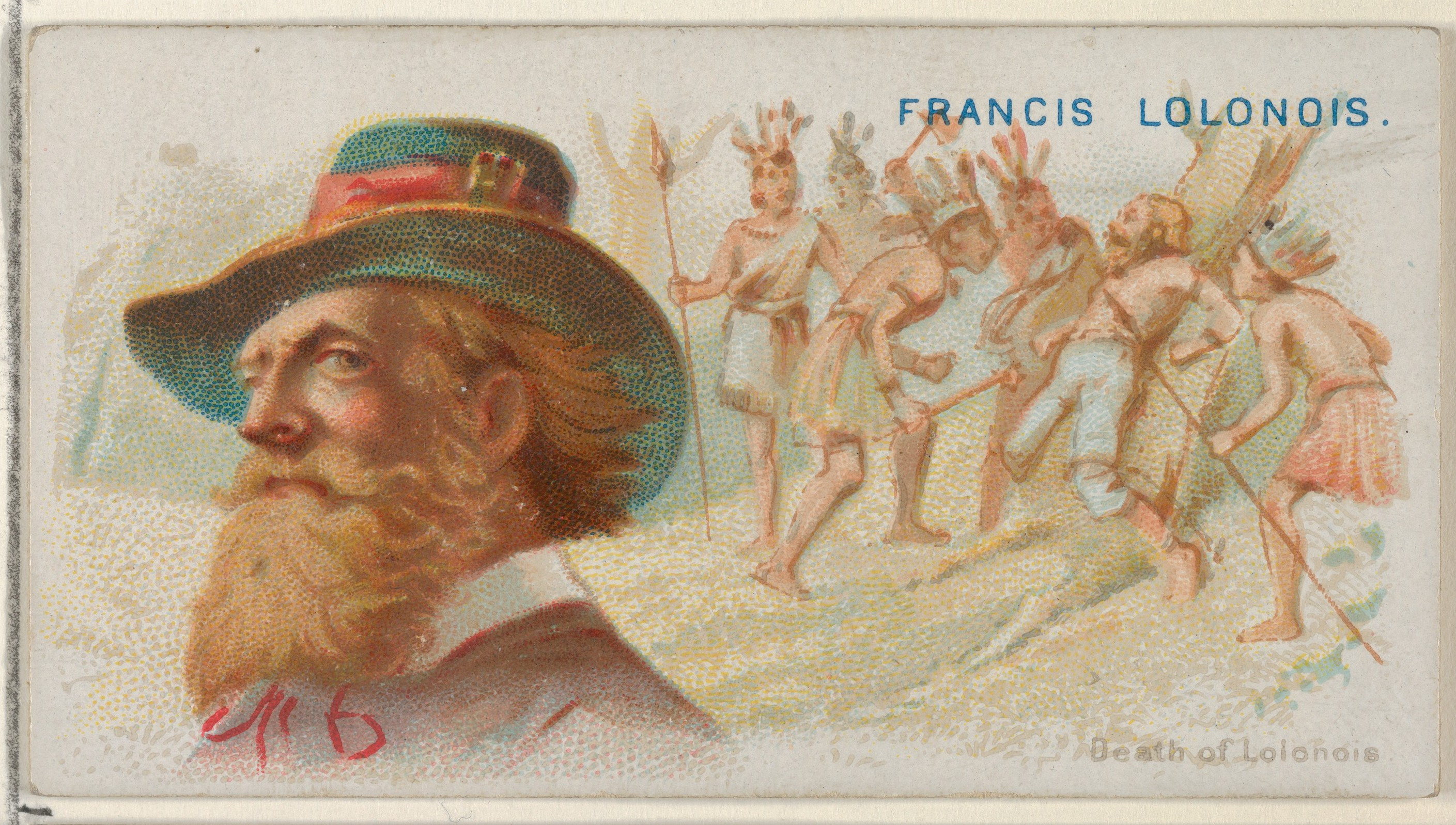 Print; Prints